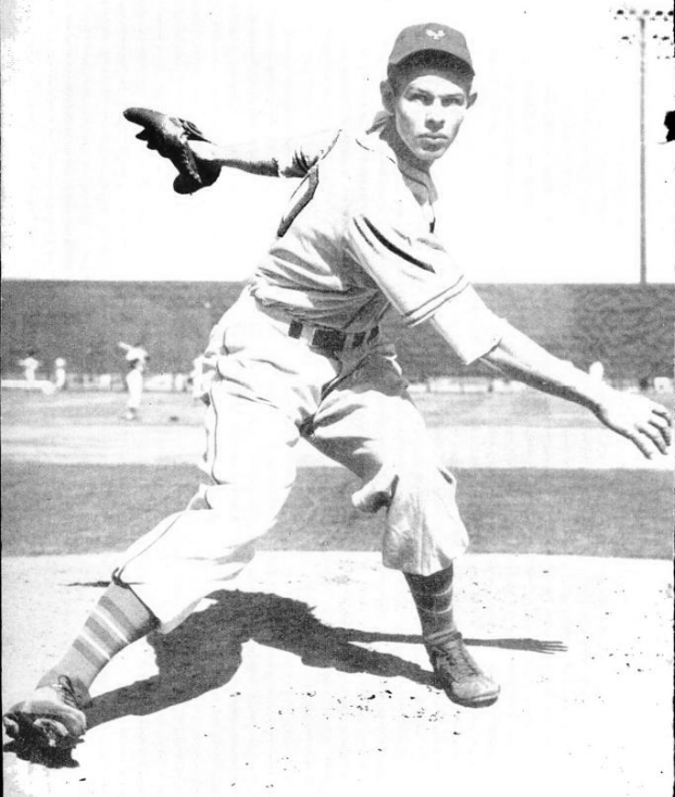 An image of Major League Baseball pitcher Clint Hartung.